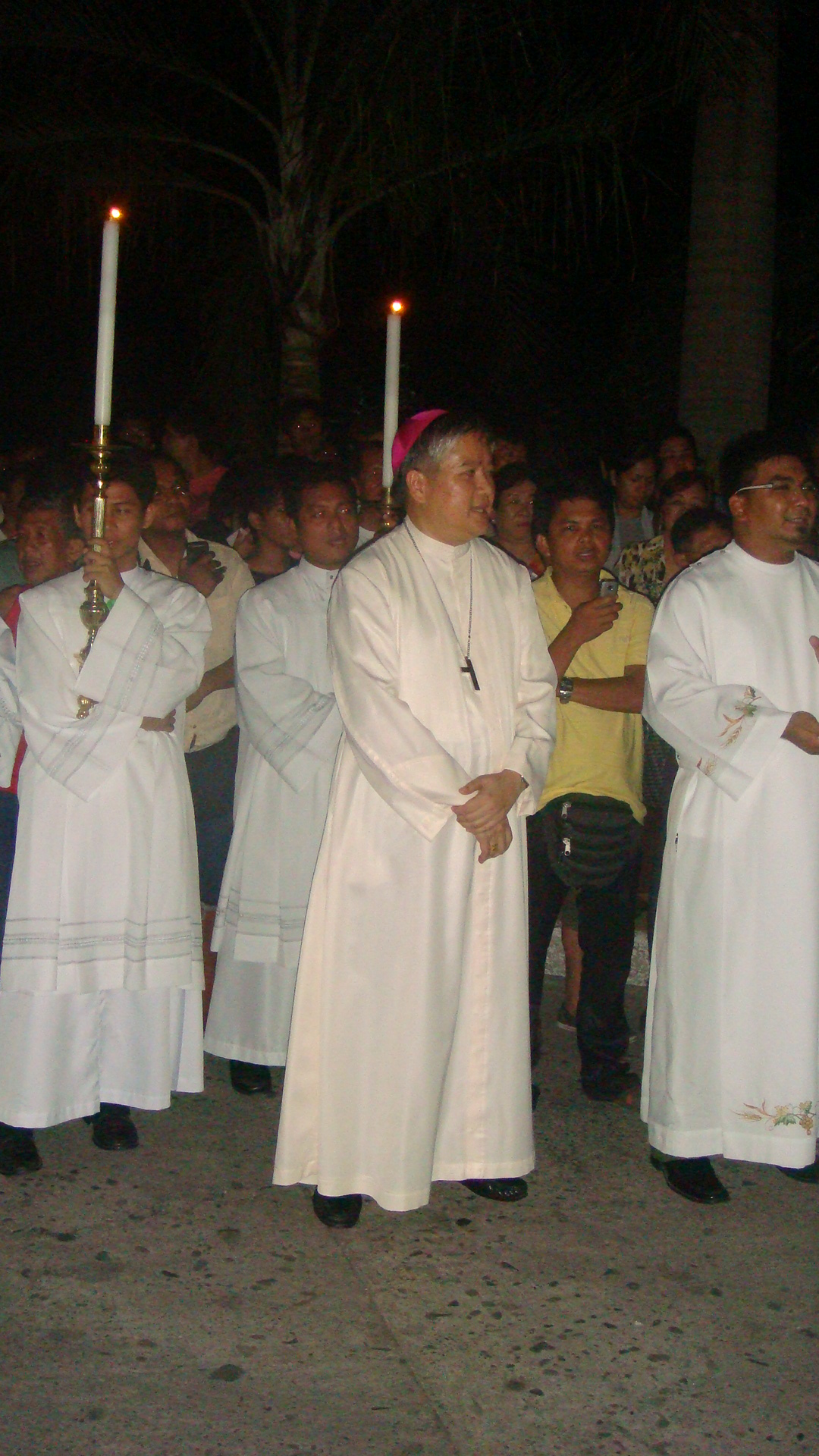 Socrates Buenaventura Villegas, DD-Archbishop of the Roman Catholic Archdiocese of Lingayen-Dagupan (2012 Easter Sunday Mass, St. John the Evangelist Metropolitan Cathedral, Dagupan City, Pangasinan)